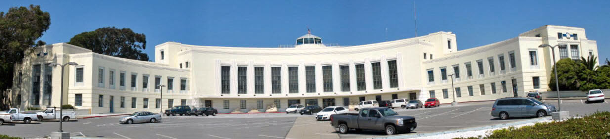 Registered Historic Places in San Francisco, California. Administration Building, SE Corner of Avenue of the Palms and California Ave., Treasure Island, San Francisco, California, USA. Photographed 2008-07-13 from the east side of Avenue of the Palms near intersection with California Ave.